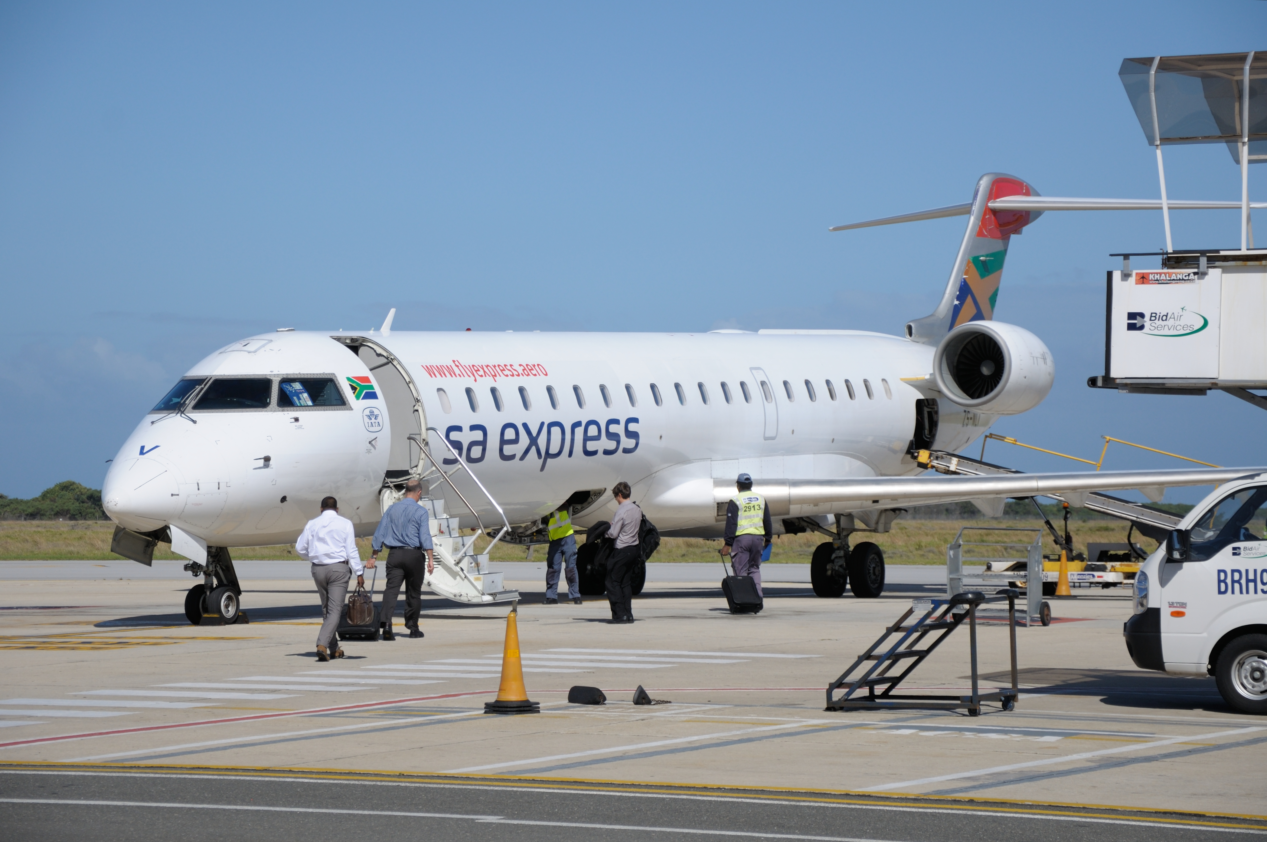 South Africa, spotting at King Shaka International Airport in Durban